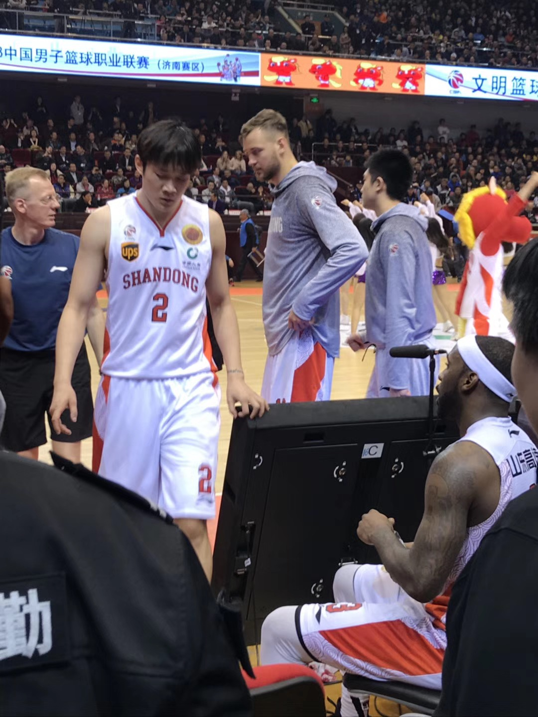 This picture is taken when Ding Yanyuhang plays for Shandong Heroes.